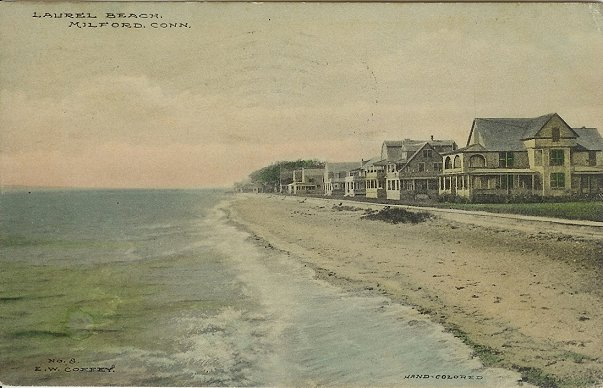 Caption: "Laurel Beach, Milford, Conn."; postcard with a 1910 postmark (eBay store description: "1910 Postcard - Laurel Beach - Milford CT")